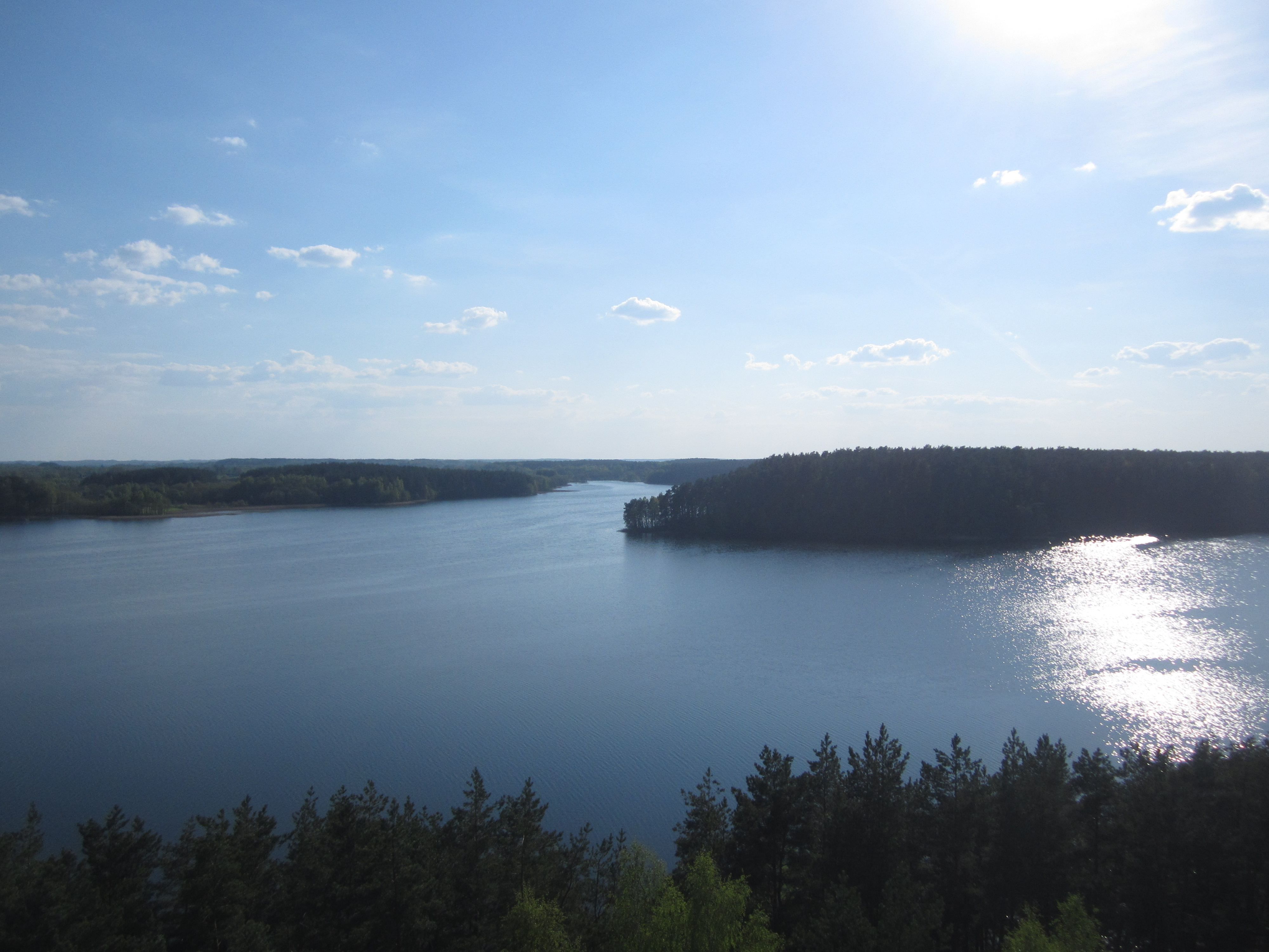 View of Baltieji Lakajai from Mindūnai Observation Tower